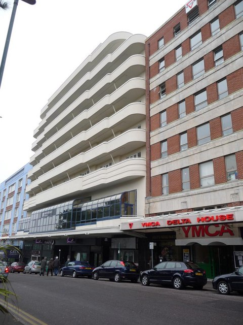 Bournemouth: Premier Inn, Westover Road This large hotel, with grand art-deco balconies, was originally the Palace Court Hotel. It became the Stakis before changing its name a couple of years ago to the Golden Tulip. It has recently been renamed again and is now part of the Premier Inn chain. The central YMCA is to the right.